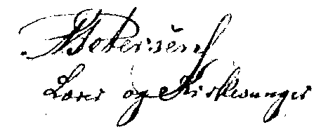 The signature of teacher Anders Petersen at his Daughters wedding in Bjæverskov, 1886.